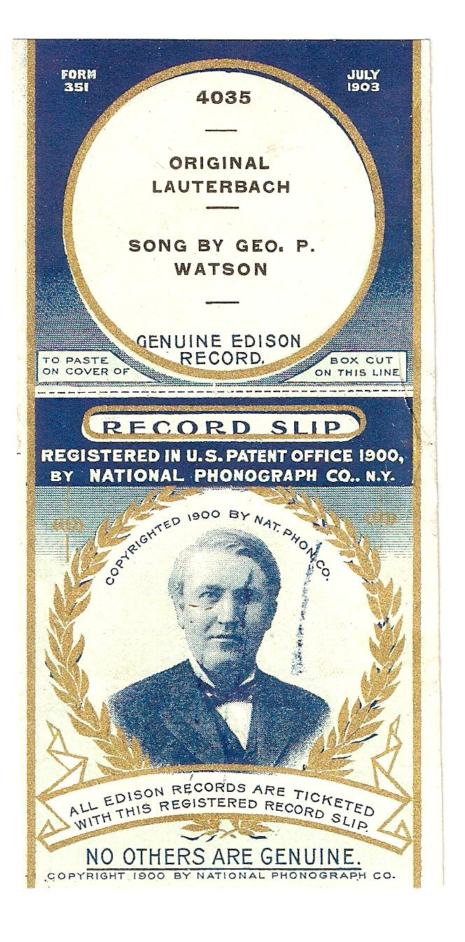 Edison cylinder record package insert slip, 1903